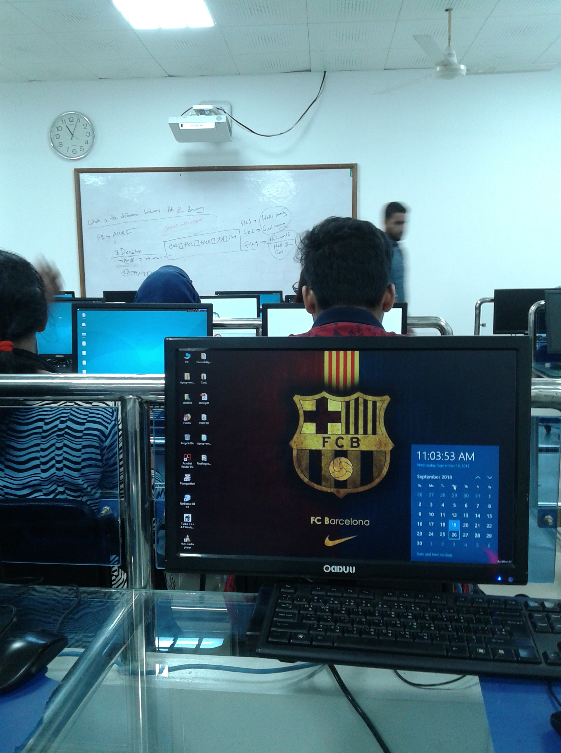 AIUB Computer Lab